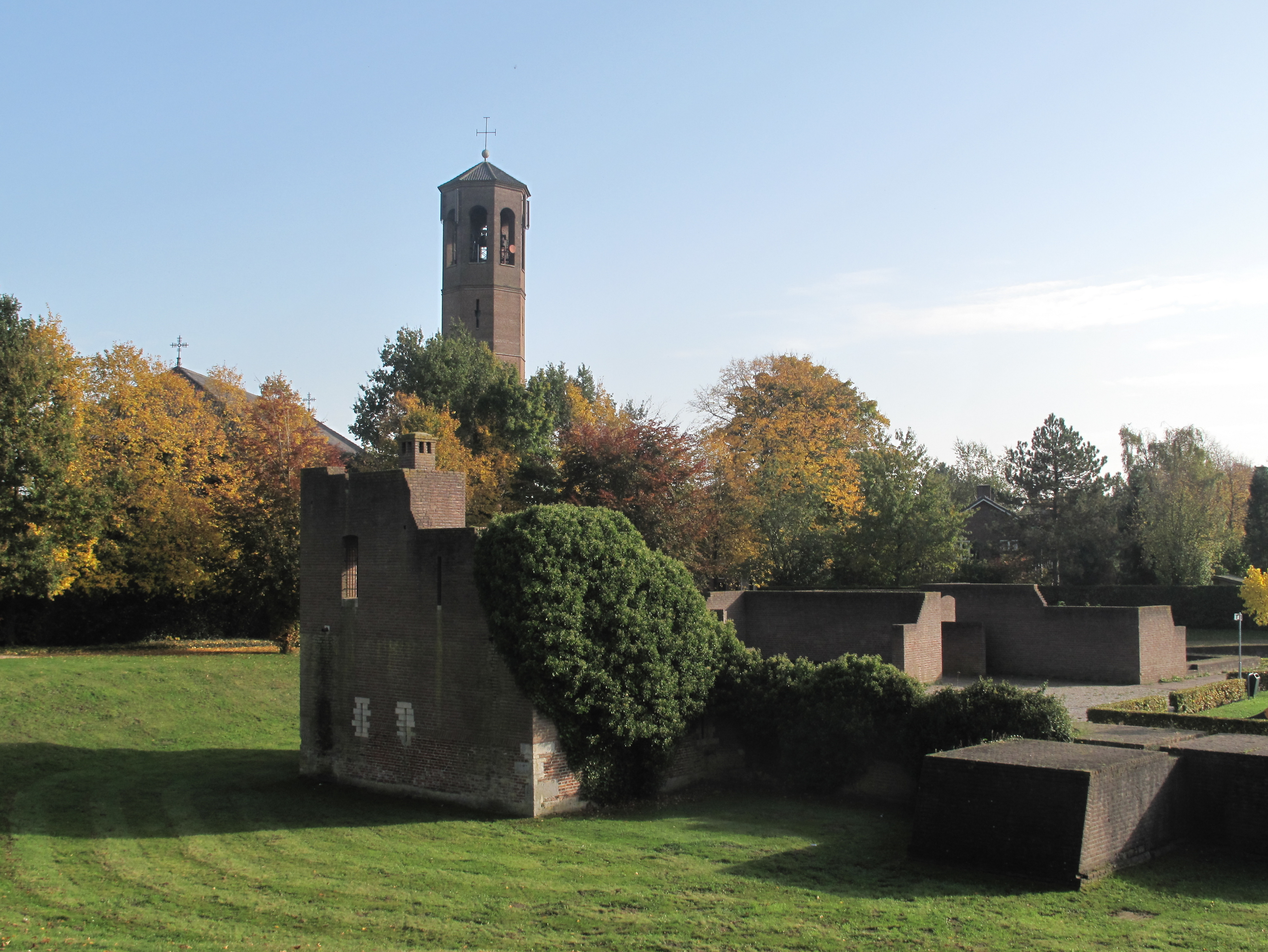 Heusden, remains castle (kasteel Heusden)